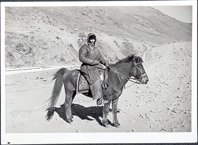 Hugh Richardson mounted on a horse. He is wearing a Tibetan fur-lined coat (chuba), a fur hat with ear flaps and a scarf wound round his neck. There is a Tibetan carpet saddle on the leather saddle of his horse. His horse was named "Maru" for which he had a great fondness.